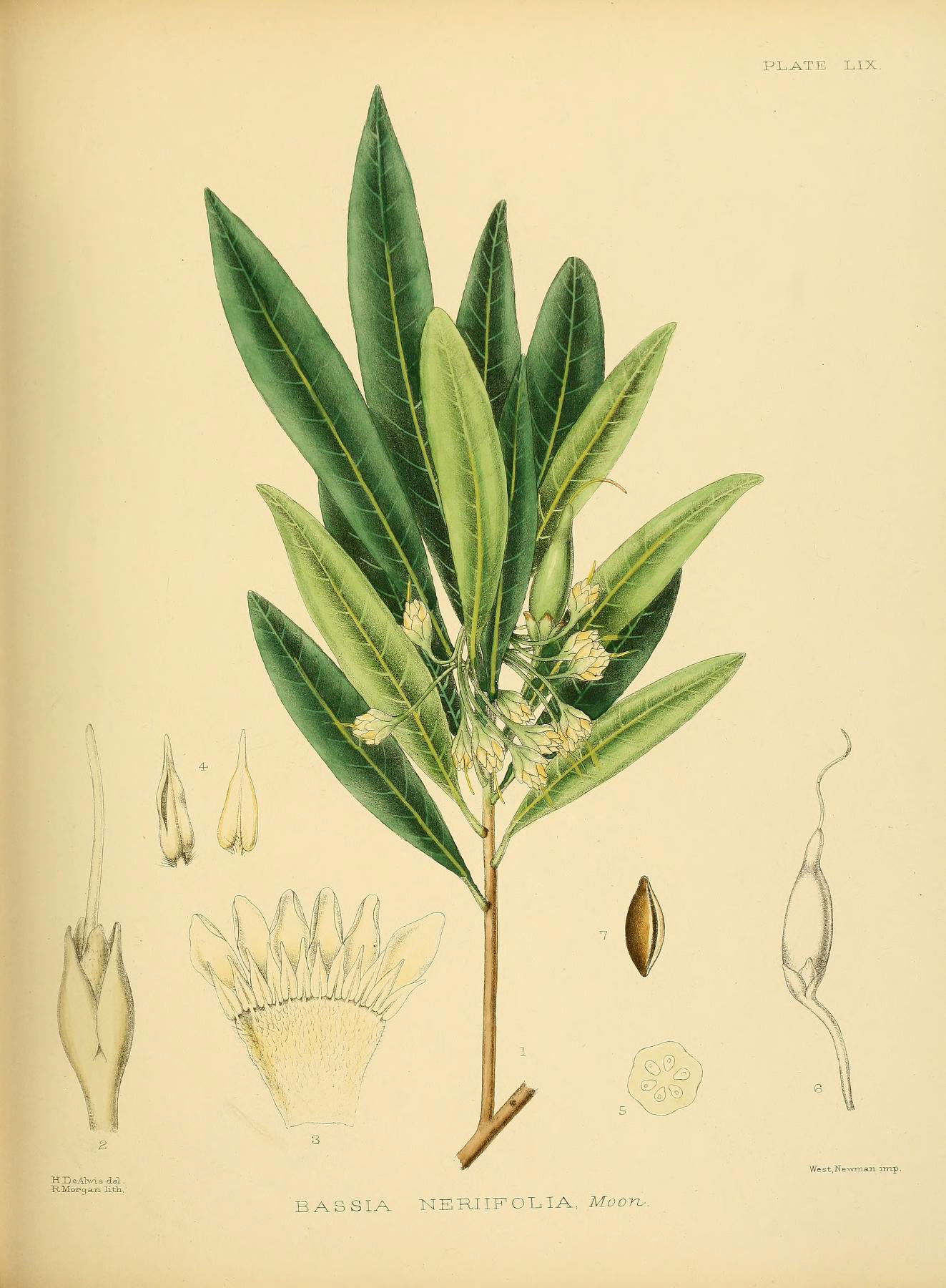 PLATE L1X. "Wcst.Ne-wTnsai imp. HDeAtwis dd "RMorqa,n lith. BASSIA NERIIFOLIA, Mooru.